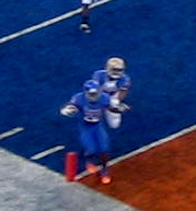 Boise State running back Doug Martin scoring an touchdown during the Broncos game vs Tulsa on September 24, 2011 at Bronco Stadium in Boise, Idaho.